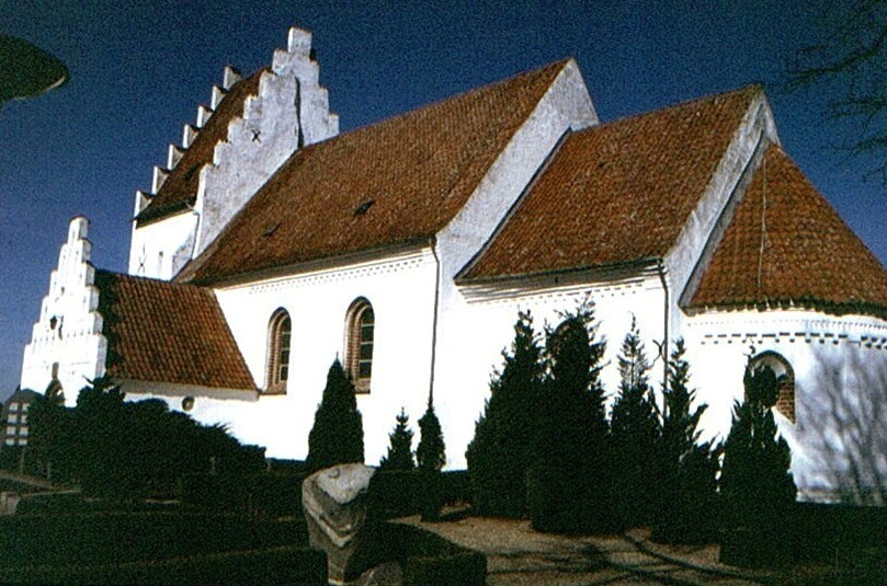 Brarup Kirke with frescoes by The Brarupmaster